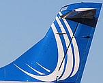 Finncomm Airlines tailfin.